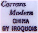 Iroquois China Company - "Carrara Modern White - c.1955